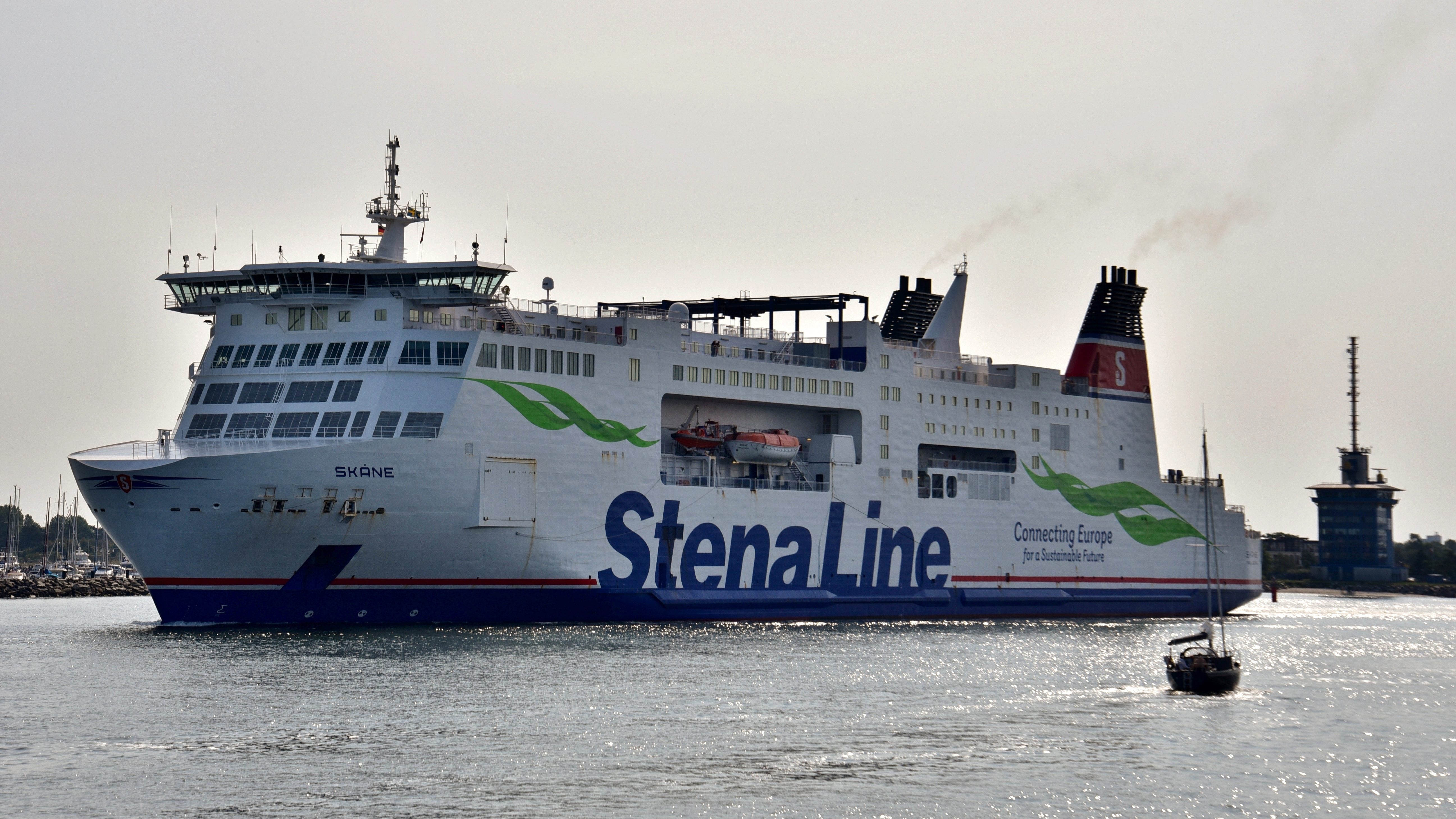 The ferry Skåne passing through Warnemünde while departing from Rostock, Germany, bound for Trelleborg, Sweden